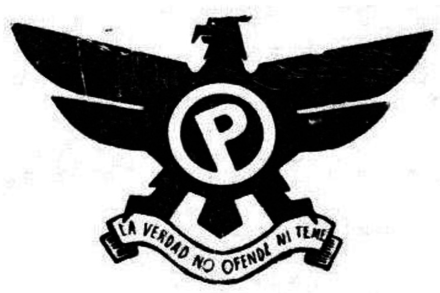 logotype of Noticiero de Espana, a Spanish irregular (closest to bi-weekly) issued by the Nationalists in 1937-1941